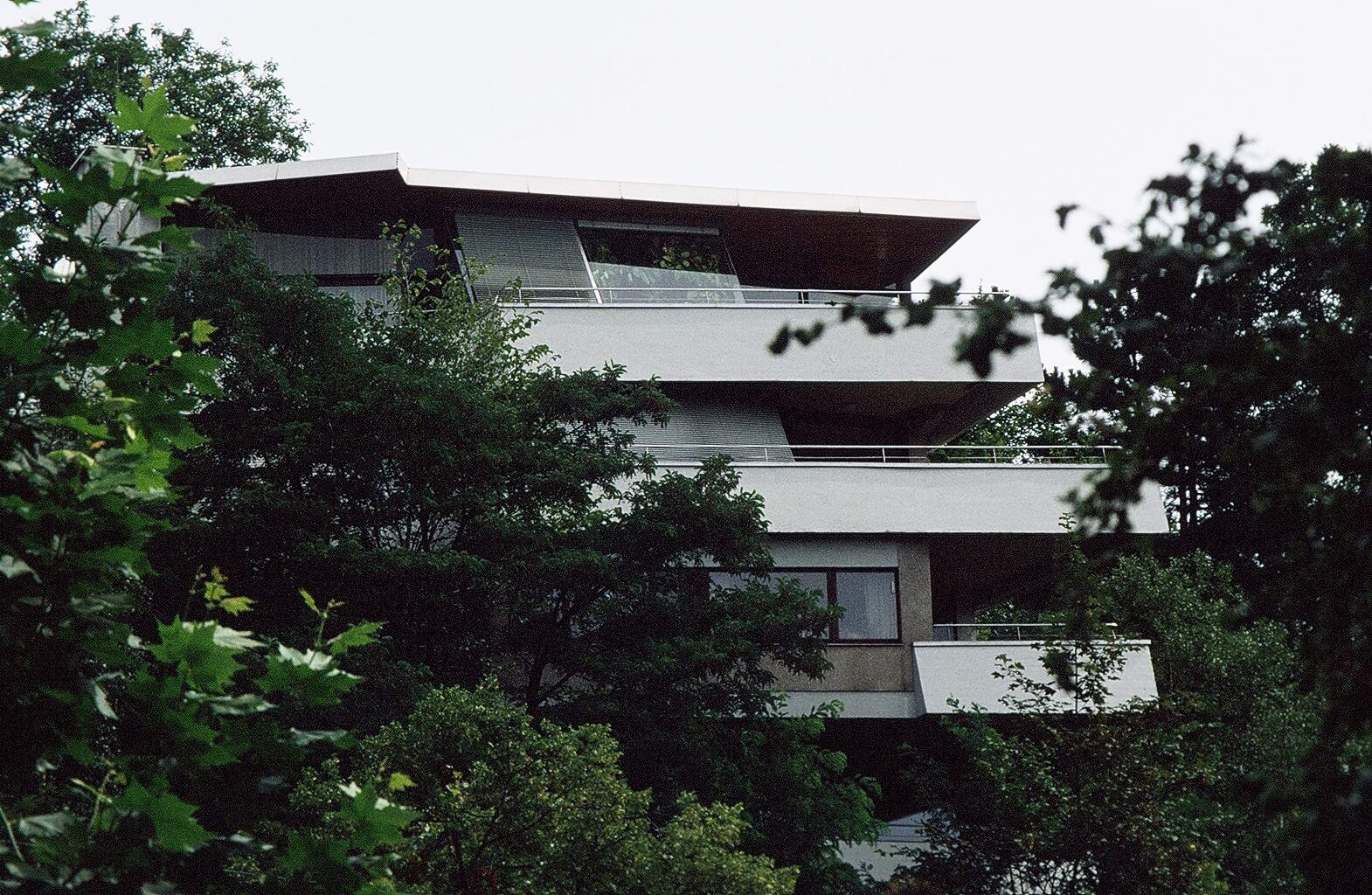 Chen Kuen Lee, apartment building (1962)